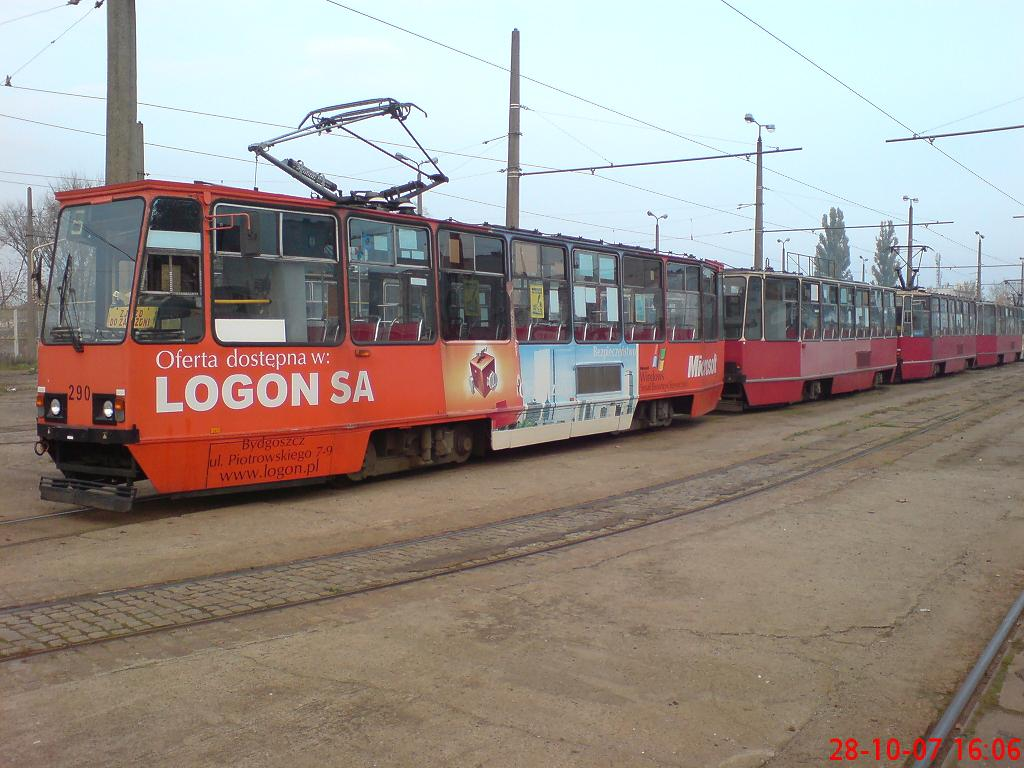 Tram number six (#290) in Bydgoszcz, Poland. Konstal 805Na, year build 1983.